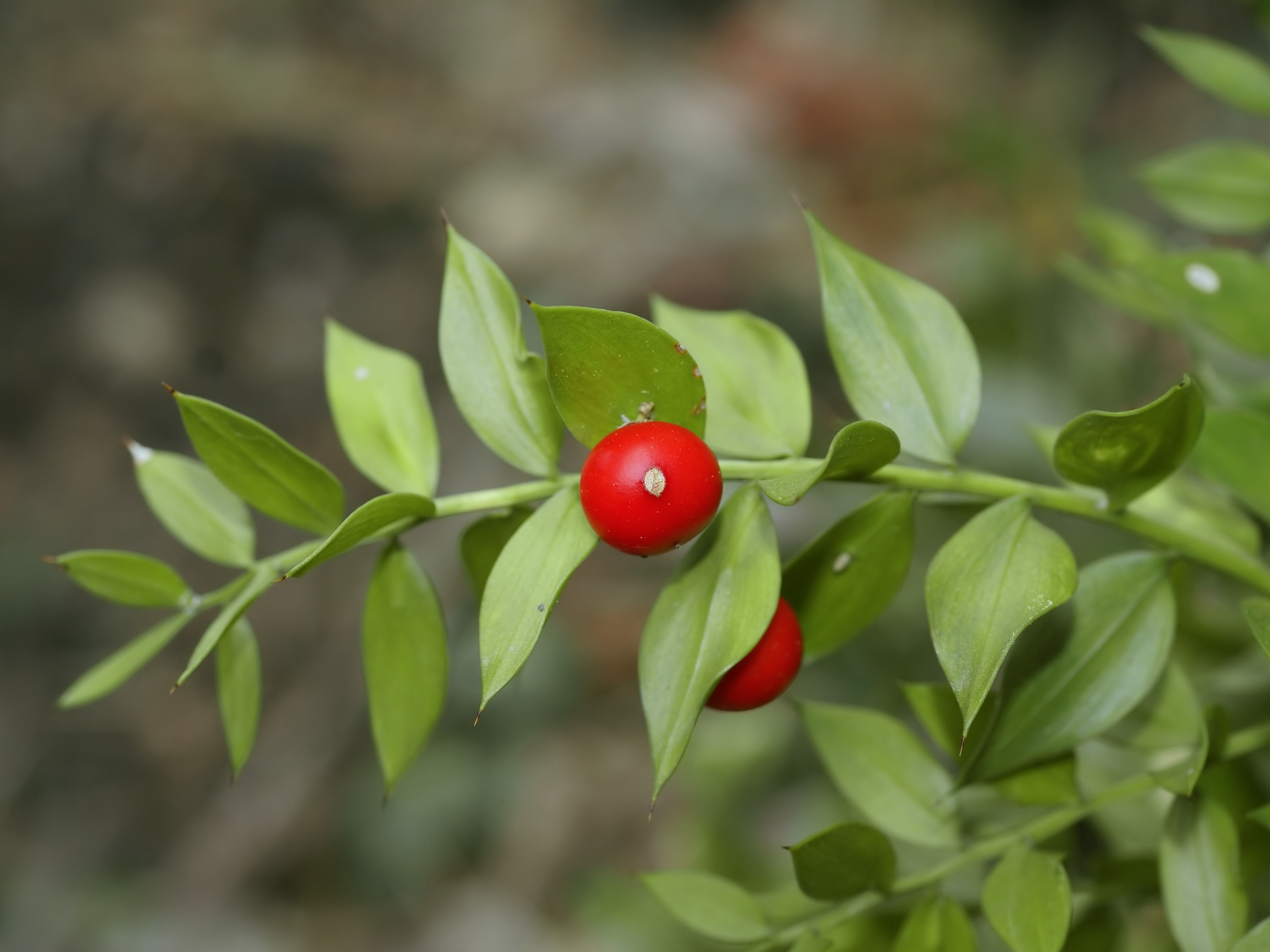 near Font de Tita, el Perelló, Catalonia, Spain